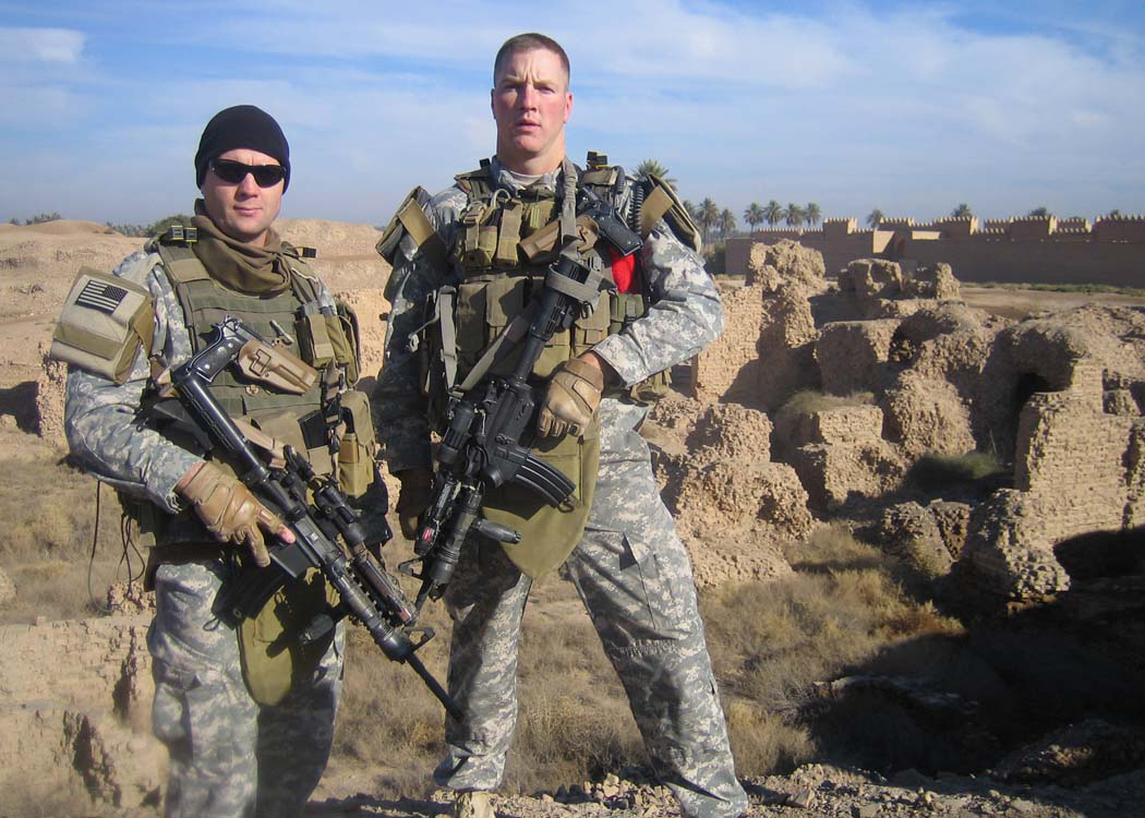 Two 19th Special Forces Group Soldiers in Babil Province Iraq, 2007.